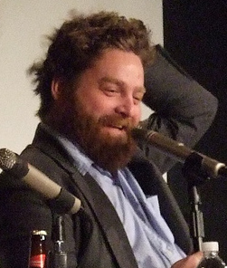 Zach Galifianakis In Inside Joke, UCBT NYC - March 6, 2008.